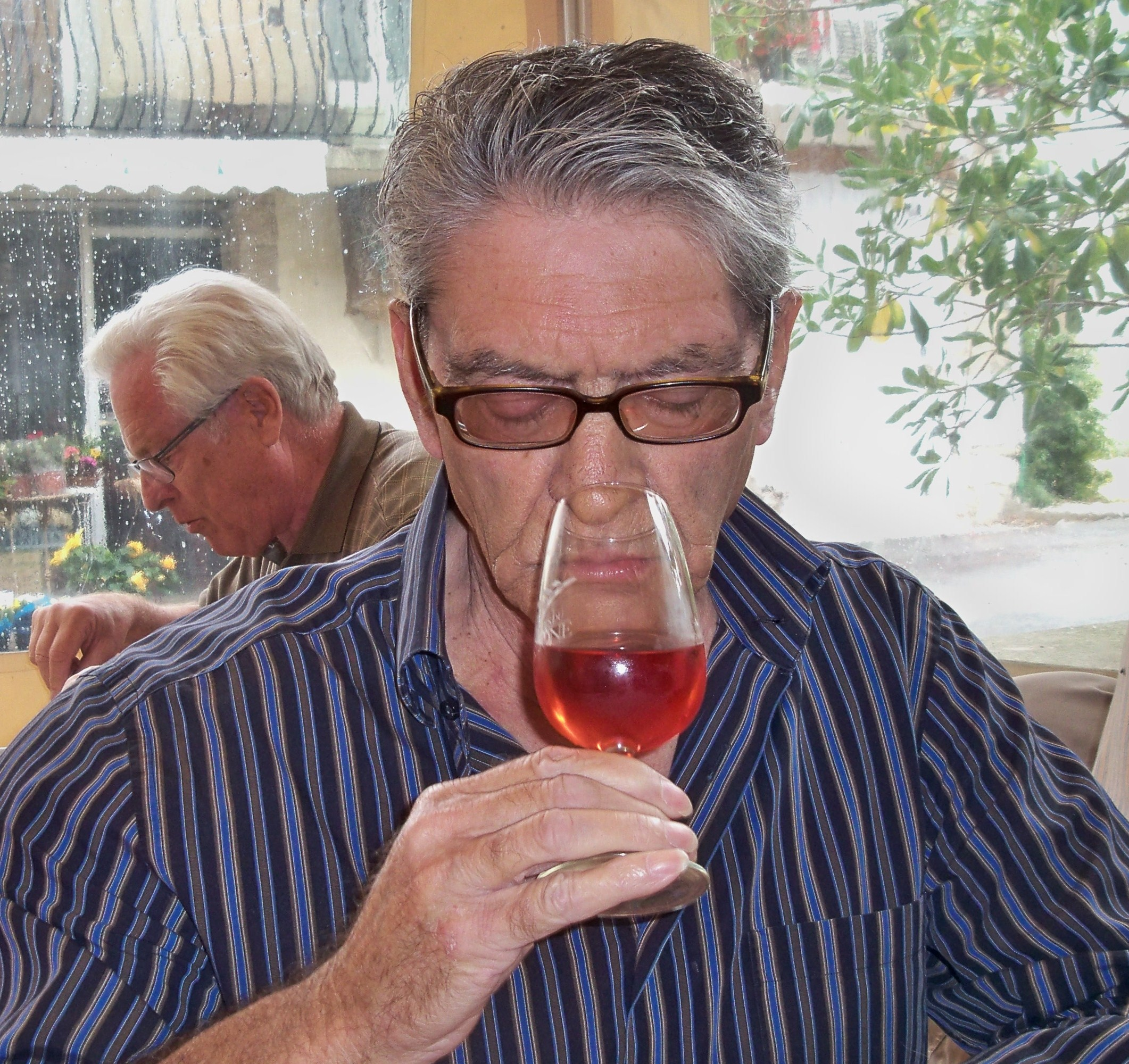 wine tasting